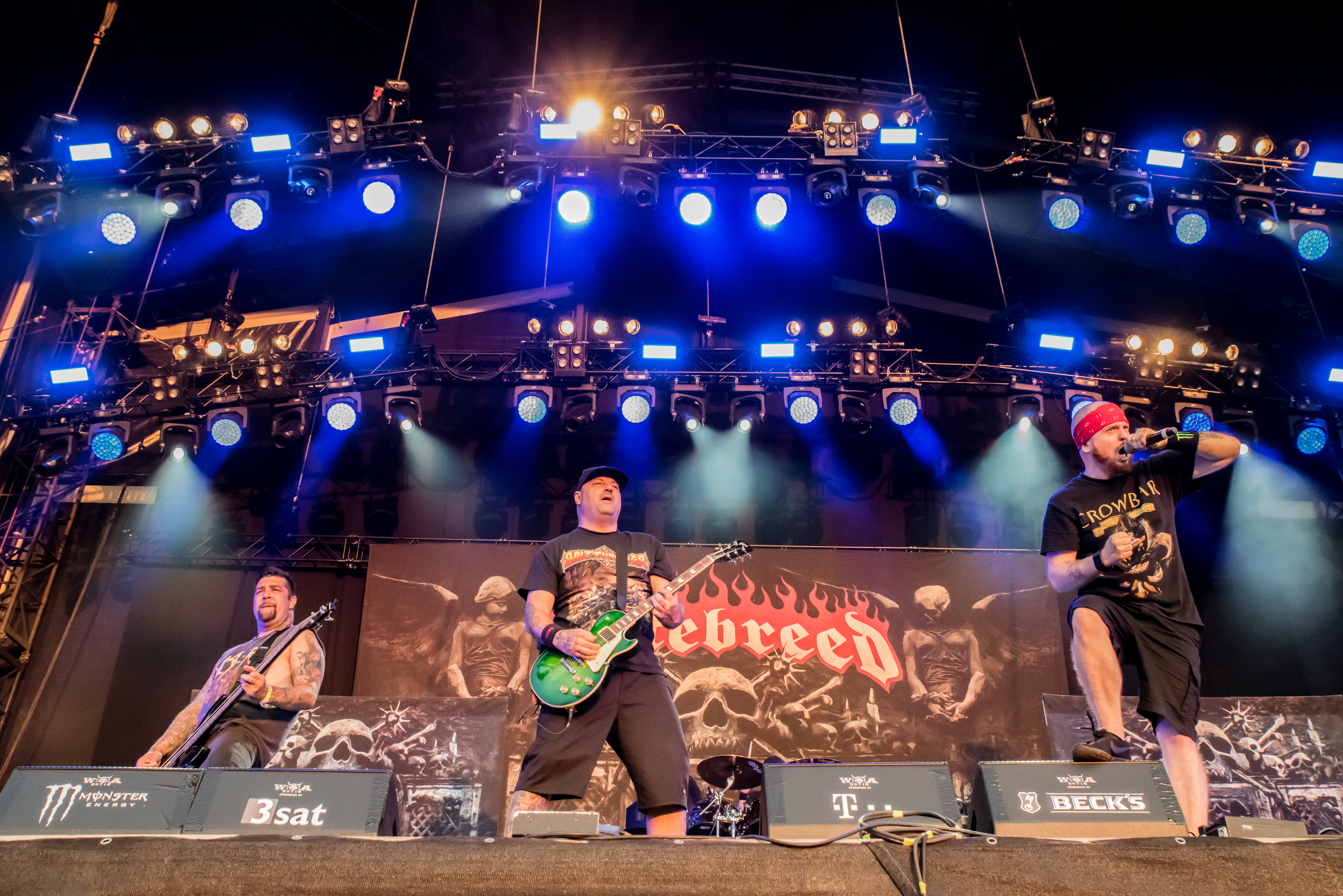 Hatebreed - Wacken Open Air 2018